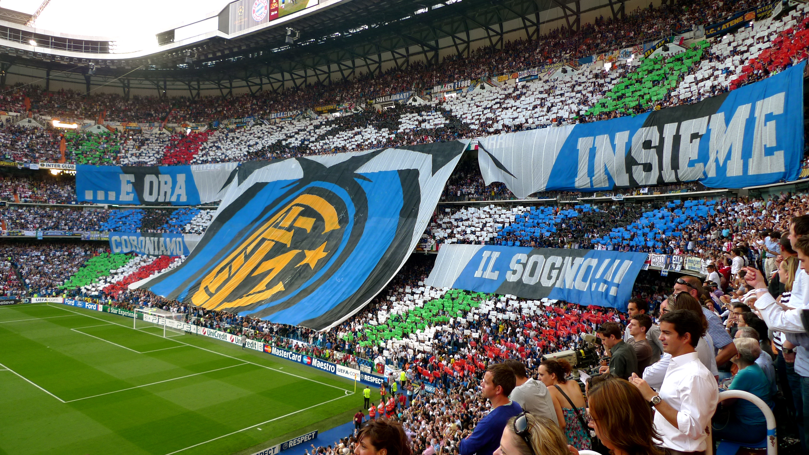 Forza Inter! (... and now - let's fulfill - together - the dream!!!)